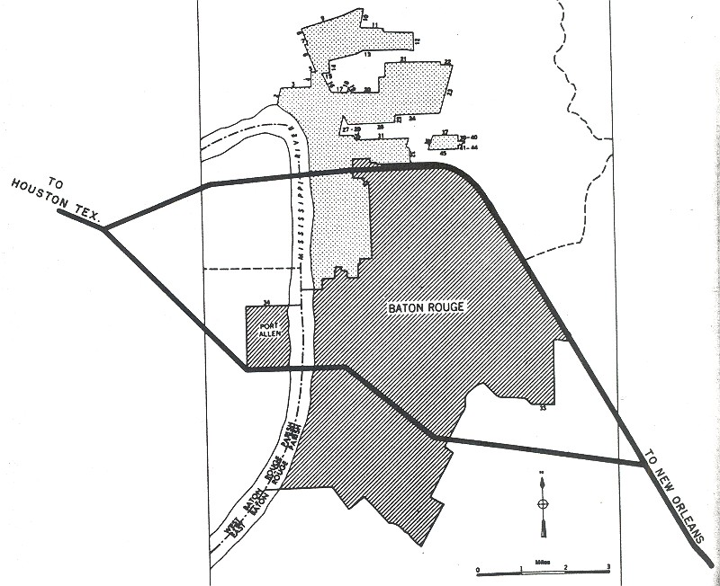 Interstates in today's terms I-10 I-410 (never built)